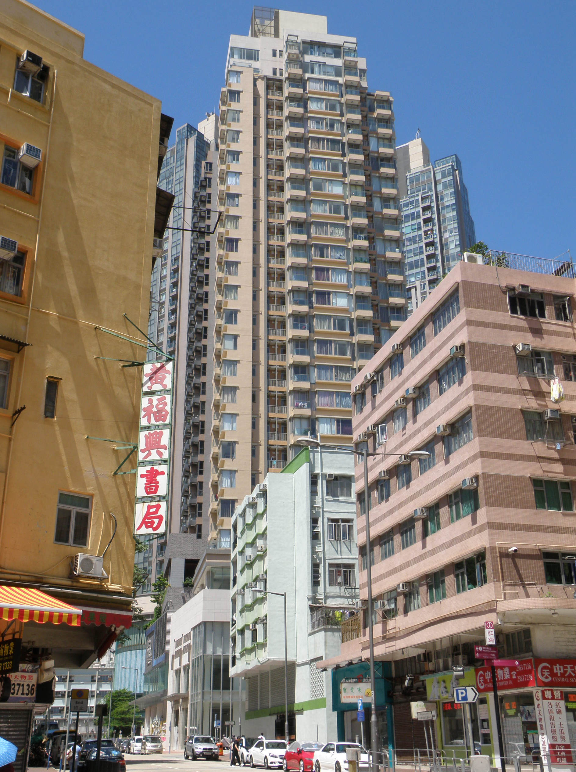 Star Ruby in Ma Tau Wai, Hong Kong.